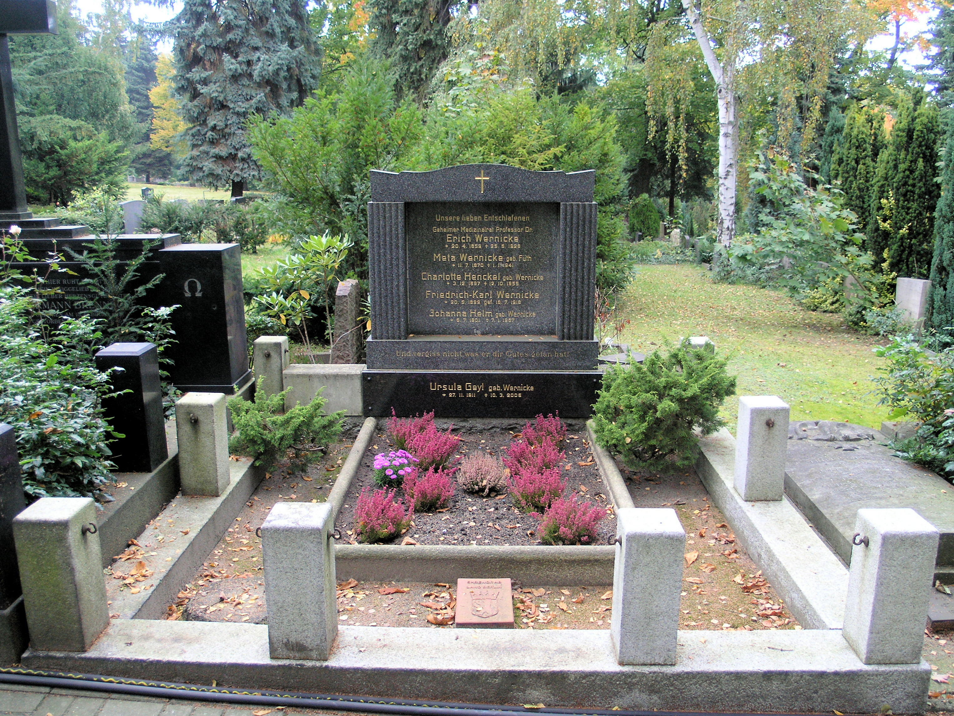 "Ehrengrab" (grave of honor), Erich Wernicke, Fürstenbrunner Weg 69, Berlin-Westend, Germany Koordinate:52°31′32″N 13°16′44″E / 52.52556°N 13.27889°E